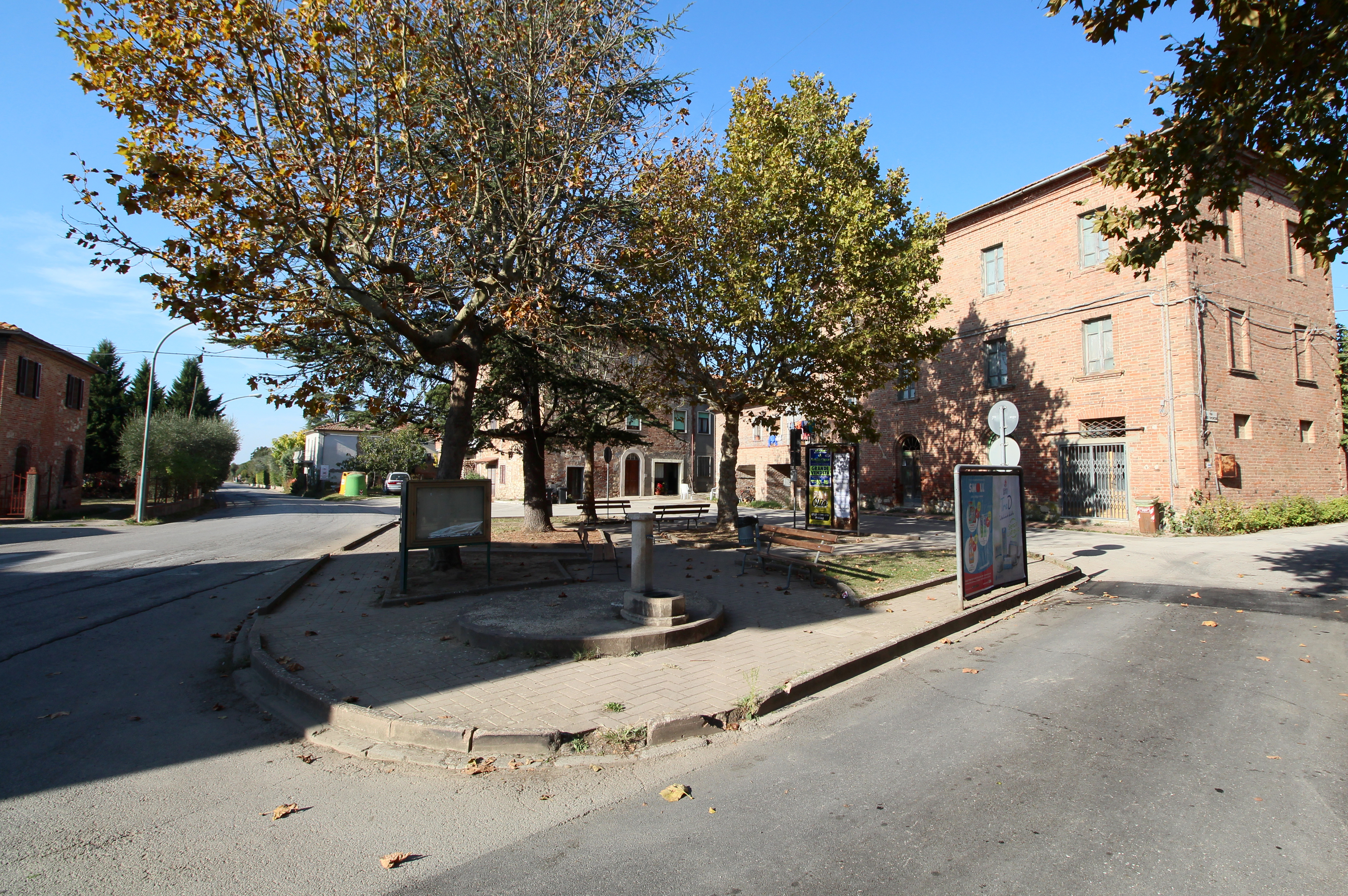 Piana, hamlet of Castiglione del Lago, Province of Perugia, Umbria, Italy